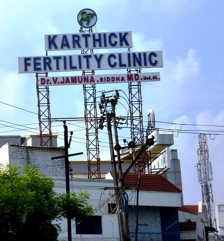 I took this photo on a trip to southern India in 2010.